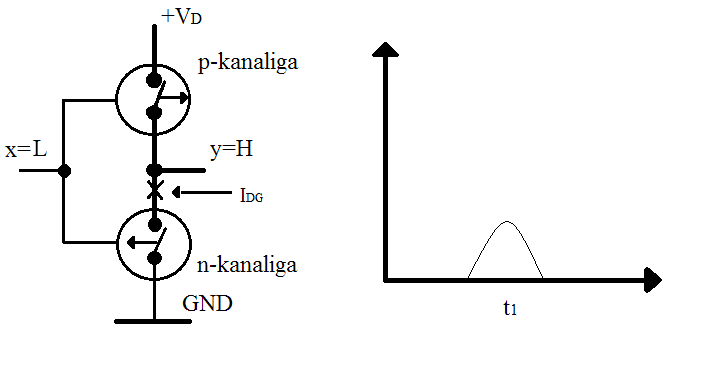 CMOS-eiLülitus ning vooluhüpe